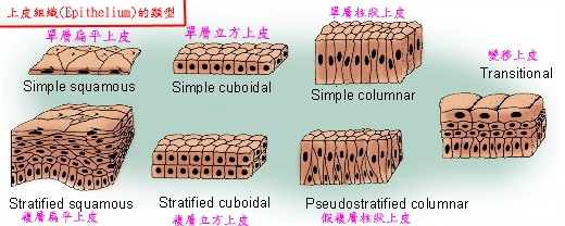 Chinese version of File:Illu epithelium.jpg 中文（台灣）: 不同的上皮組織。譯名來自《組織學與胚胎學》（ISBN：978-7-117-20646-4）。